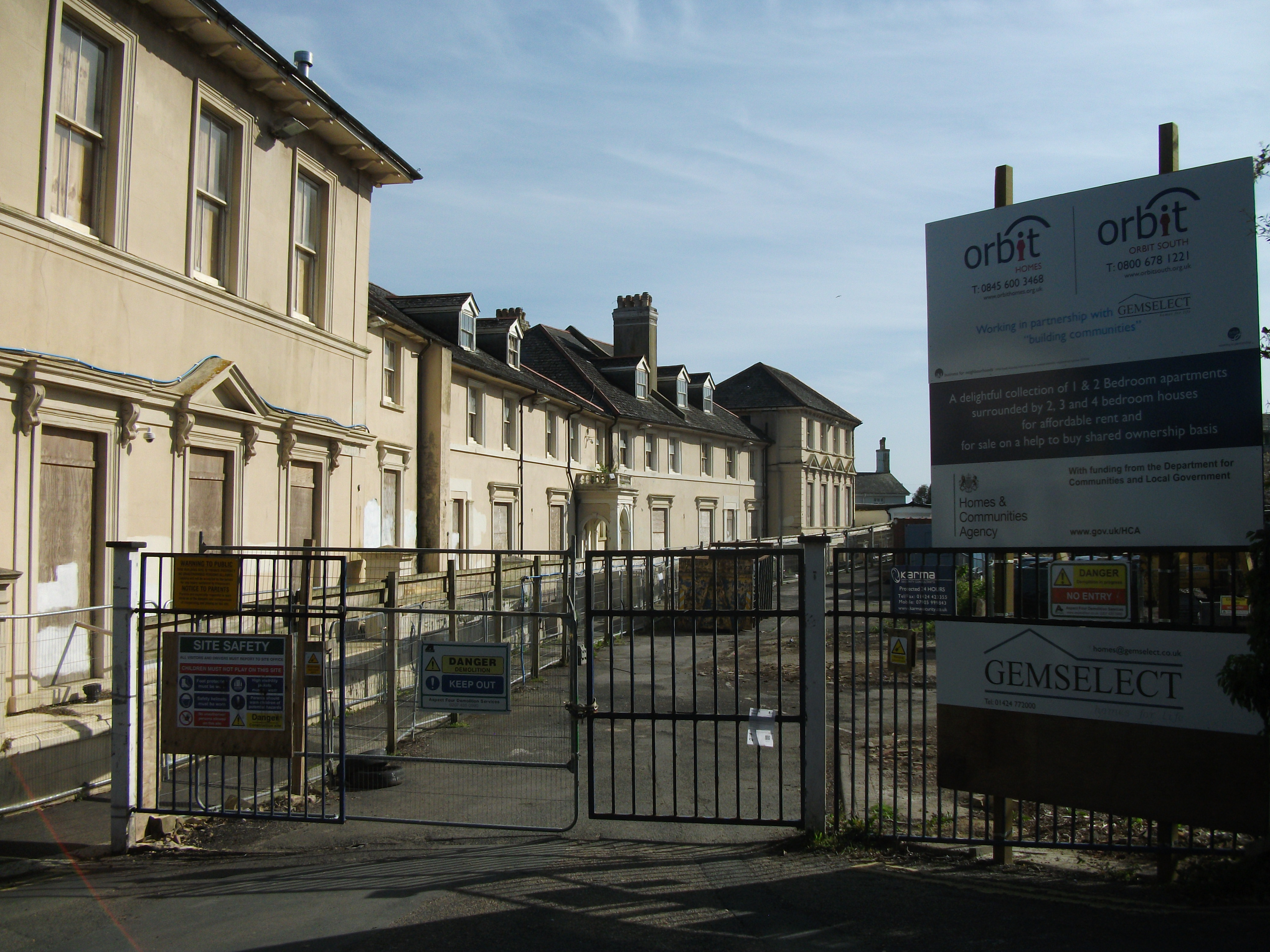 Archery Villas, St. Leonards, East Sussex. Shot during redevelopment of the former Hastings college campus on the Archery Ground. Developers signboard visible on right. Archery Villas is a grade II listed terrace, architect Decimus Burton.